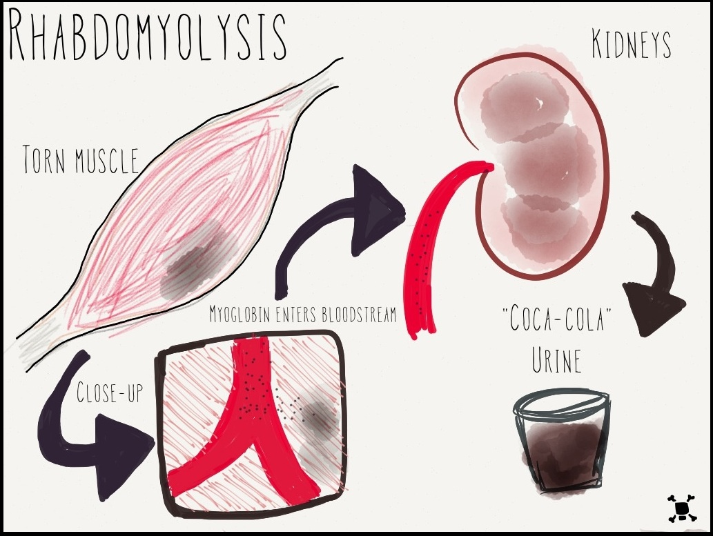 how you get rhabdomyolysis